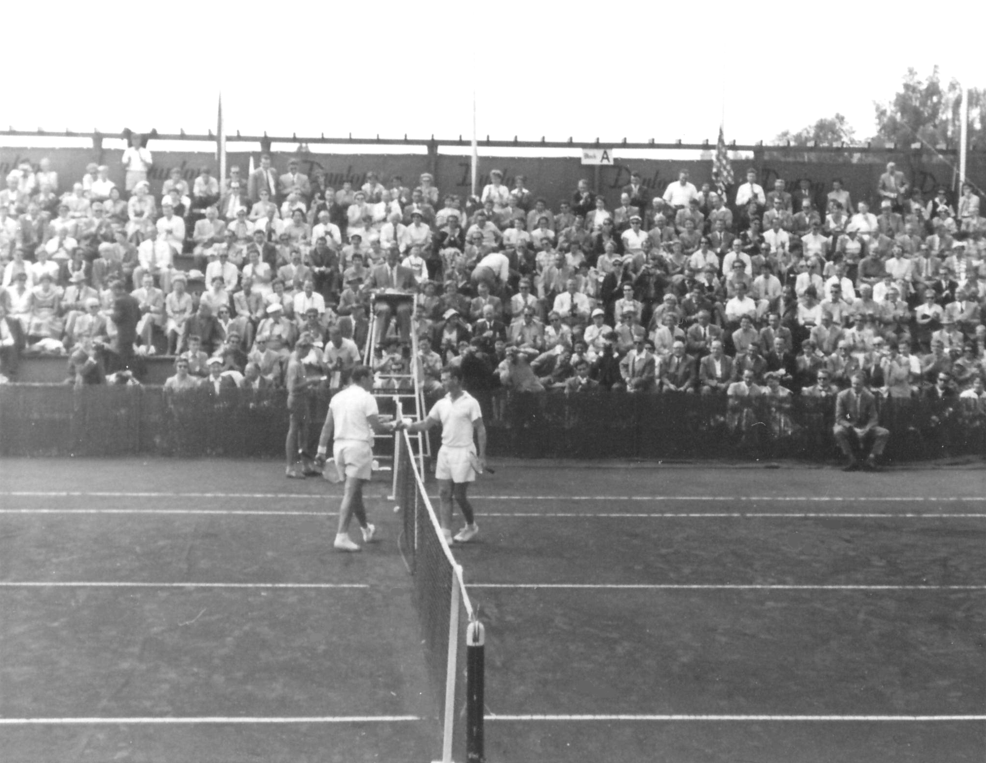 Erlangen in July 1955 - The Tennis game is over, Jack Arkinstall congratulates Jaroslv Drobný fair to his victory